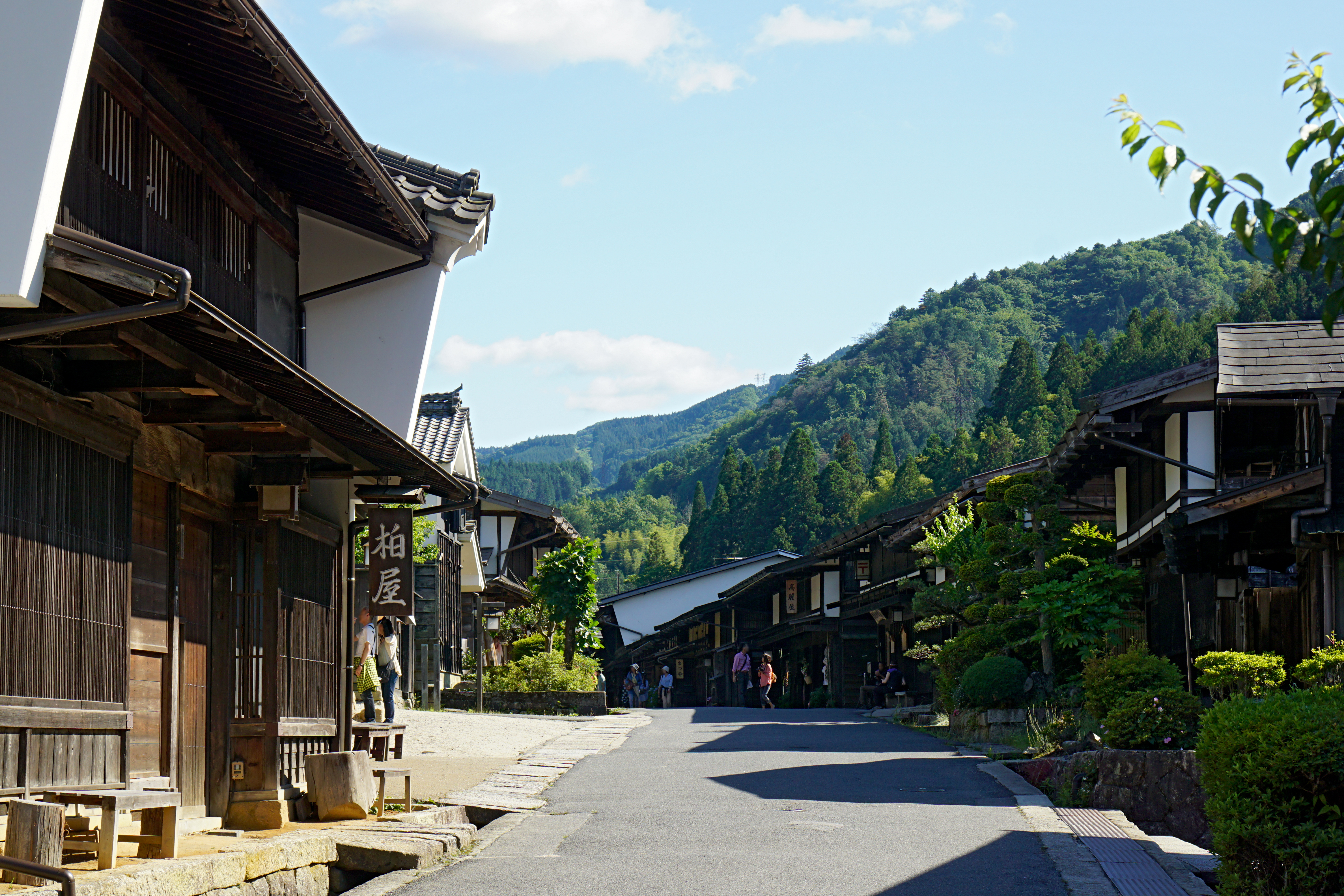 At Tsumago-juku in Nagiso, Nagano prefecture, Japan